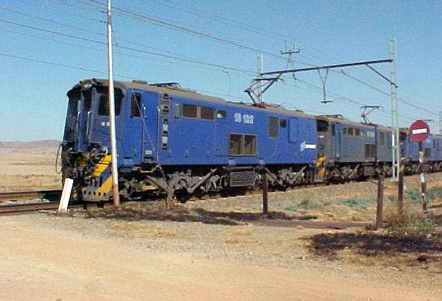 Spoornet Class 18E Series 1 18-122 Location: Fortuna, Balfour, Mpumalanga History: Rebuilt in 2004 from Class 6E1 Series 10 E2120